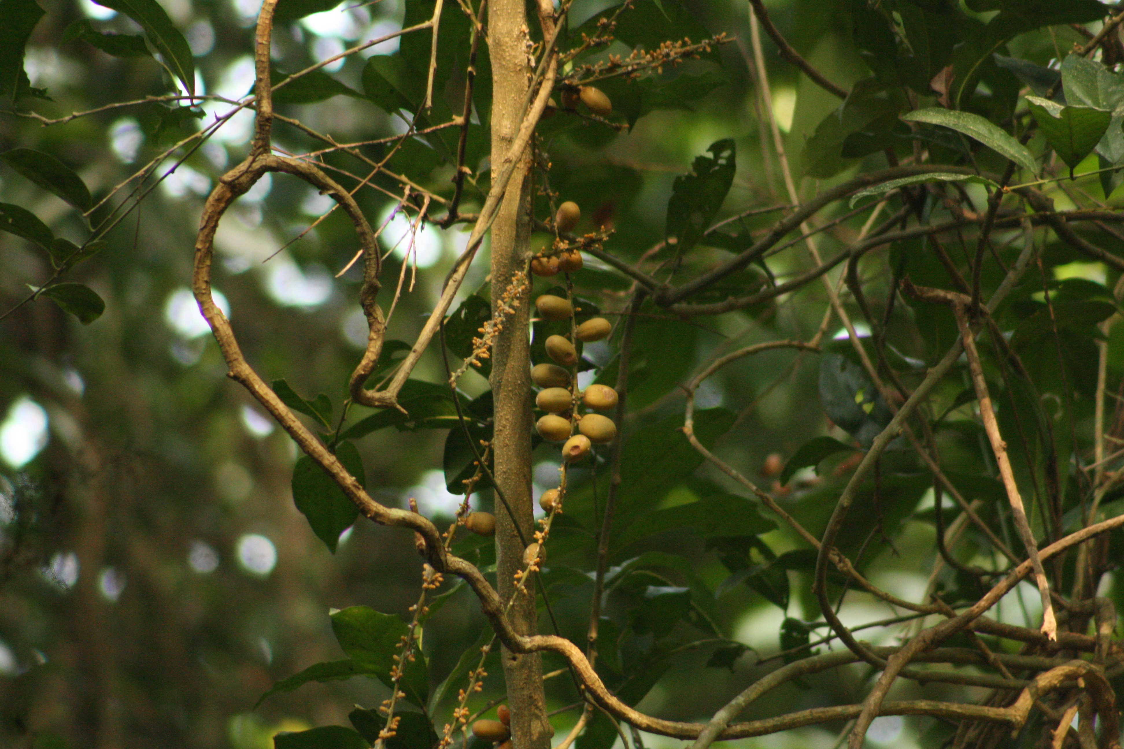 Sarcostigma kleinii in Neeliyarkottam. Is a woody climber seen in Western Ghats. Its bark and seed oil are used as medicine in Joint Diseases, Neurologic Complaints and Skin Diseases